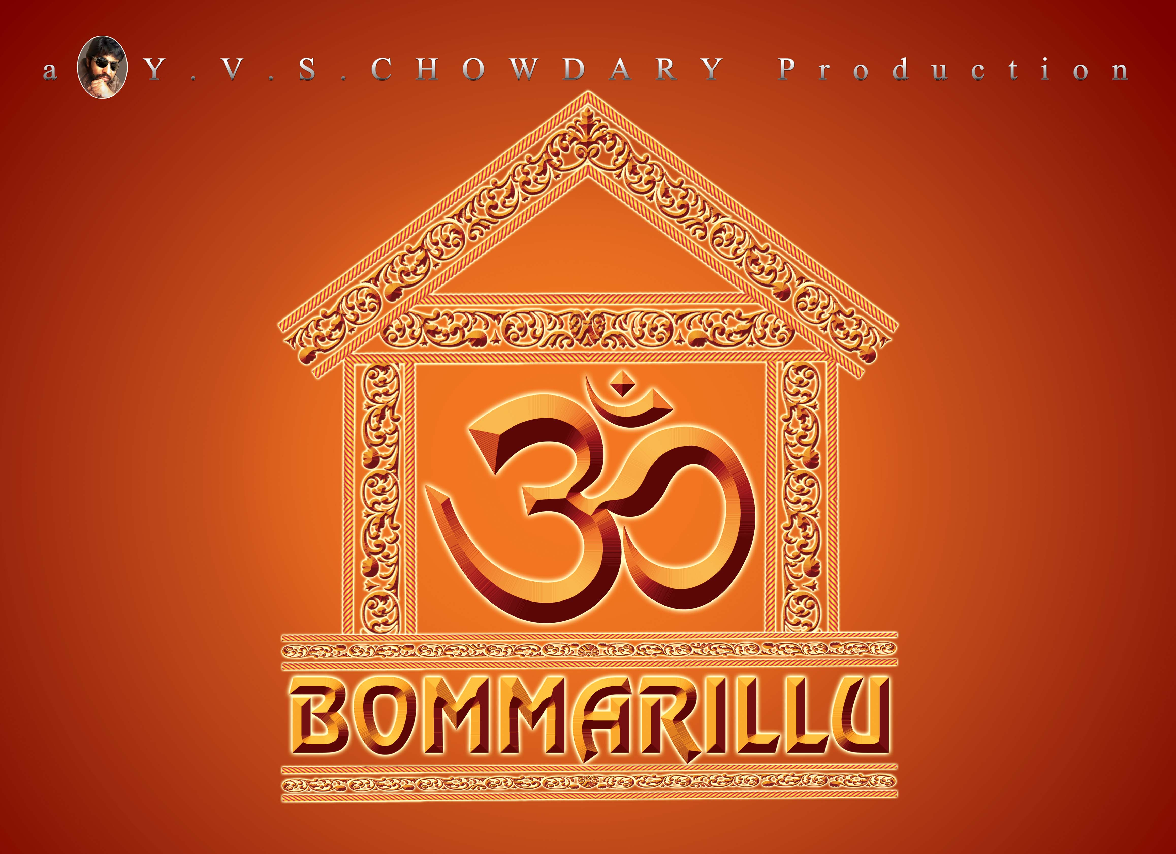 Logo of "Bommarillu Vari" production house owned by YVS Chowdary